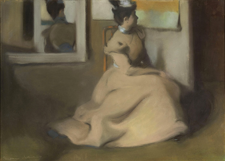 La dame au miroir - Maxime Dethomas c.1895. Pushkin Museum, Moscow. Pastel on card. 47x67cm. Acquired by Puskin in 1903 from Durand Ruel, Paris. Executed in his studio at 9, Rue Duperre some time during the artists stay at the address from the beginning of 1894 and July, 1896.